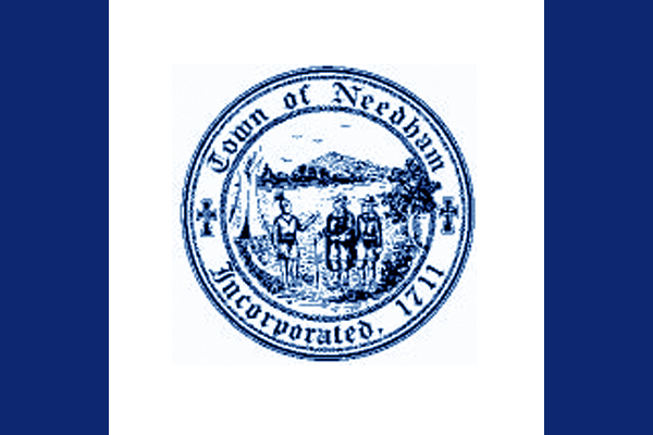 Flag of Needham, Massachusetts. Based on flag found at